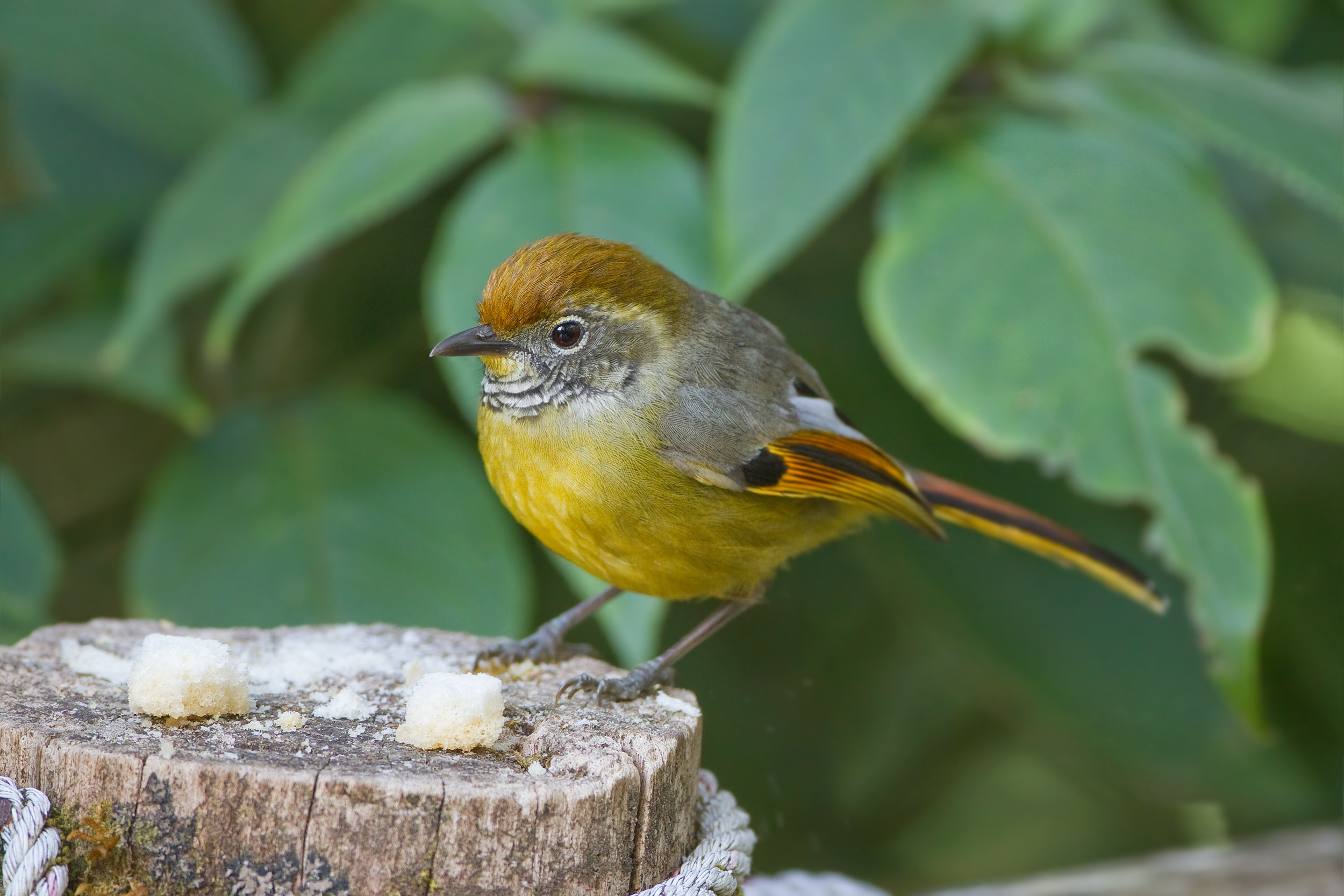 Chestnut-tailed Minla (Chrysominla strigula), Doi Inthanon National Park, Ban Luang, Chiang Mai, Thailand